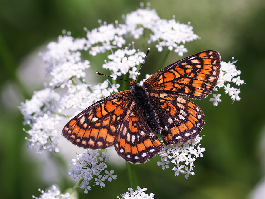 Euphydryas maturna, female - Bukk Hills, Hungary, 28/05/2016